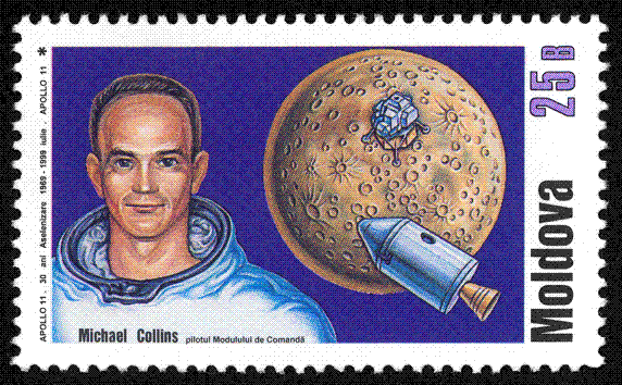 Stamp of Moldova